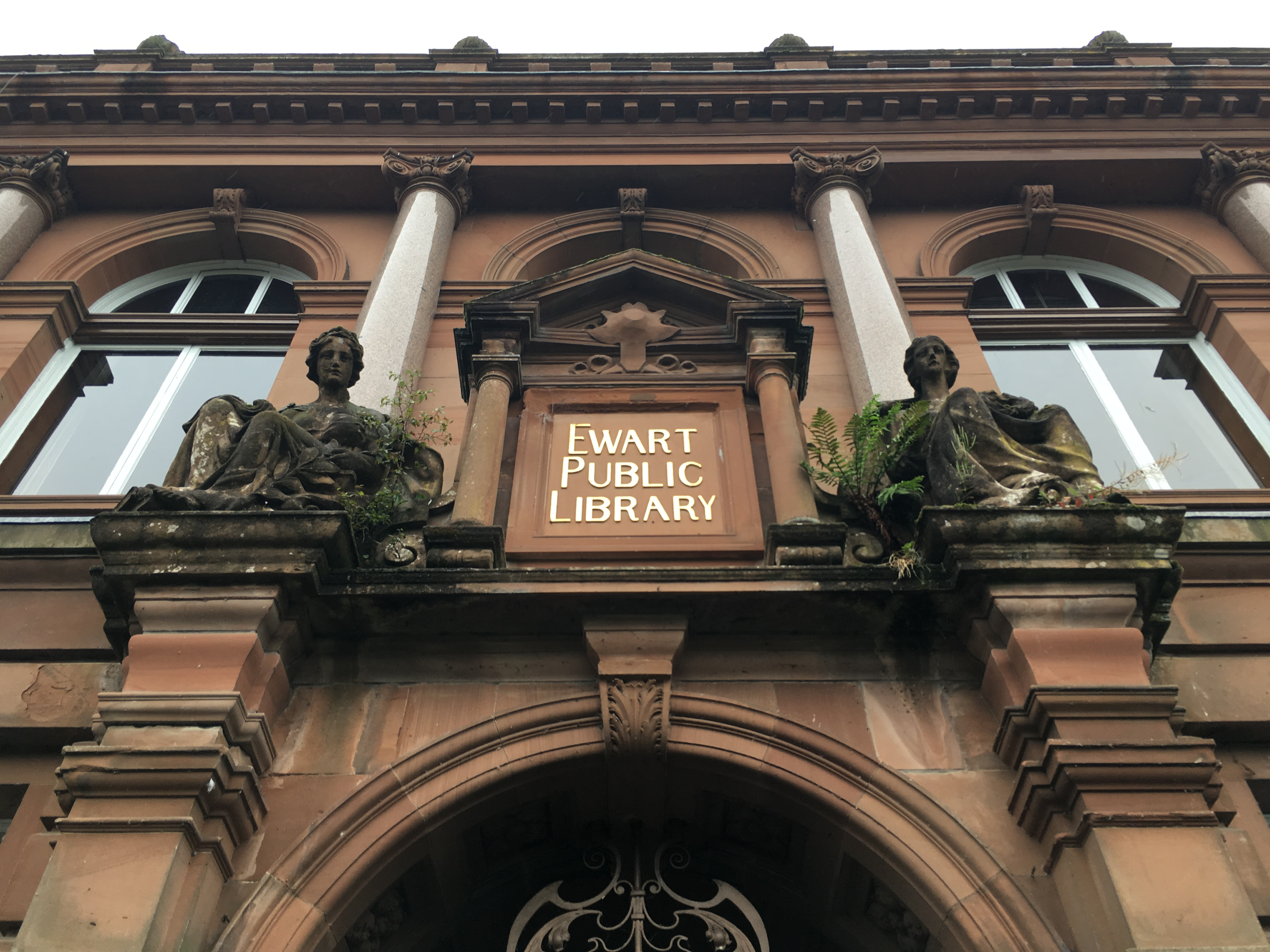 This file was uploaded as part of the Dumfries Stonecarving Project in Dumfries, Scotland, UK. This tag does not indicate the copyright status of the attached work. A normal copyright tag is still required. See Commons:Licensing. Detail of stonecarving on the entrance to the Ewart library in Dumfries, Scotland.